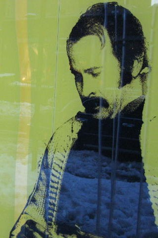 Artwork of Jason Lee